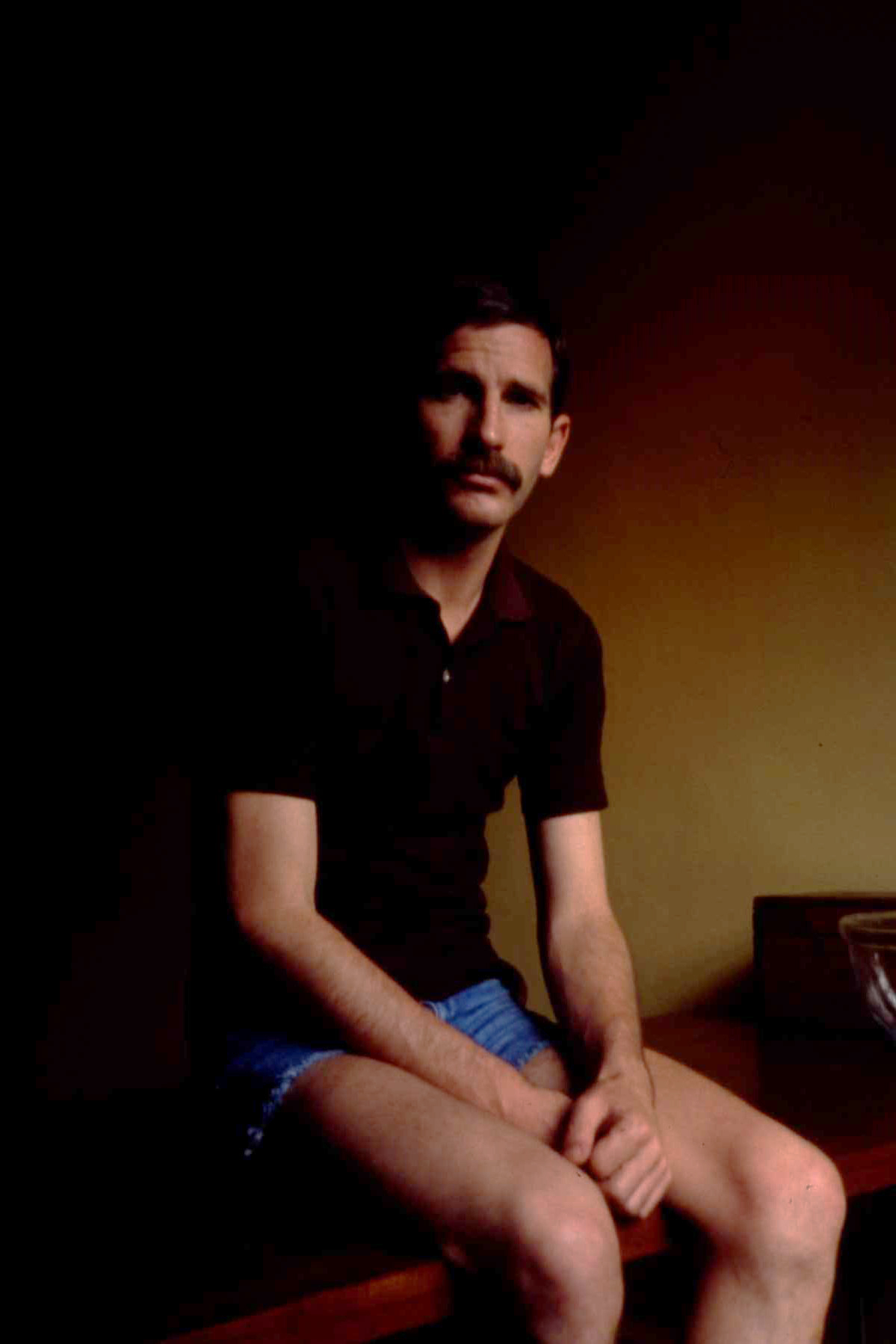 George Whitmore in his New York apartment